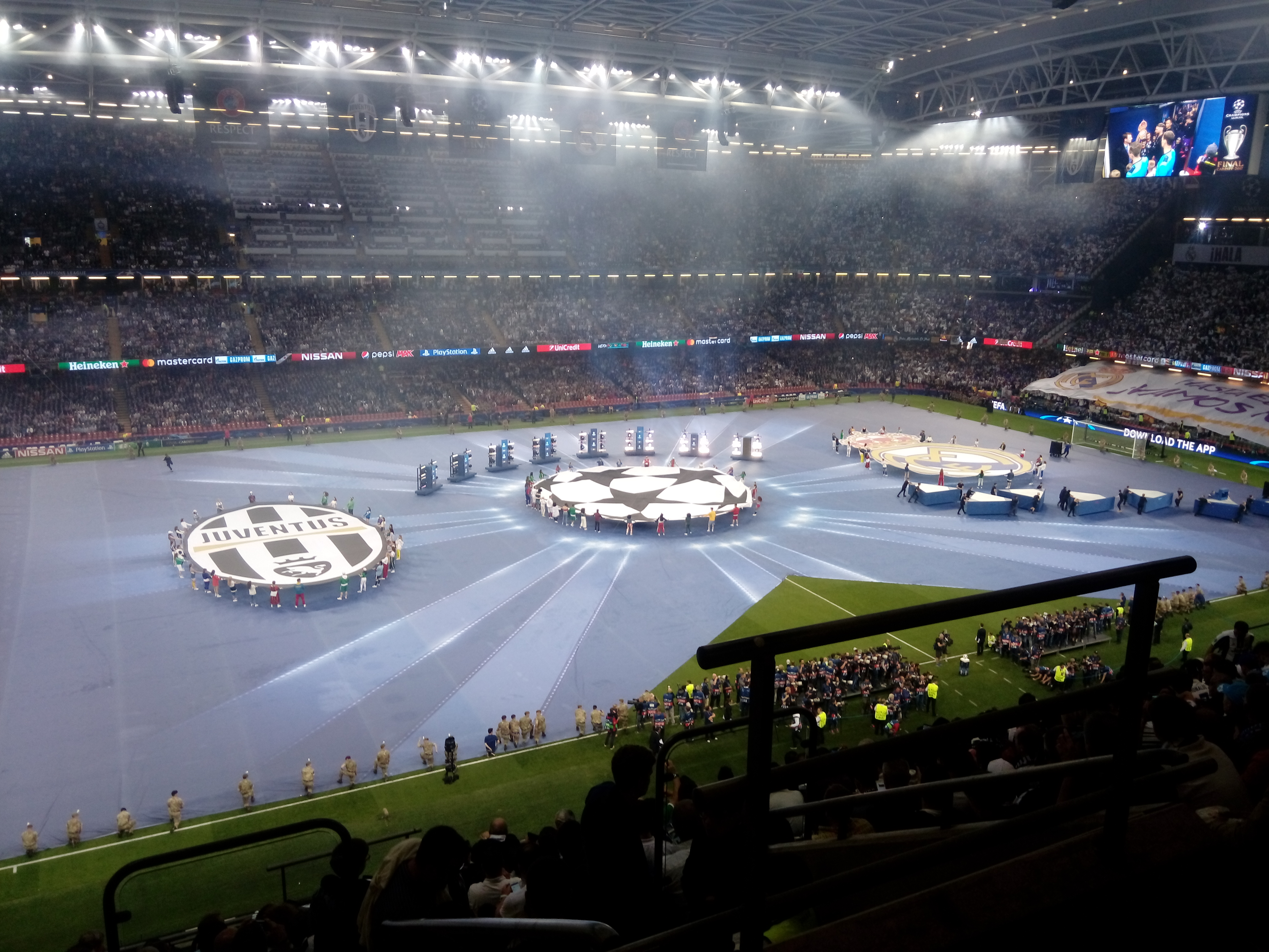 Opening ceremony of the 2017 UEFA Champions League final at Millennium Stadium, Cardiff